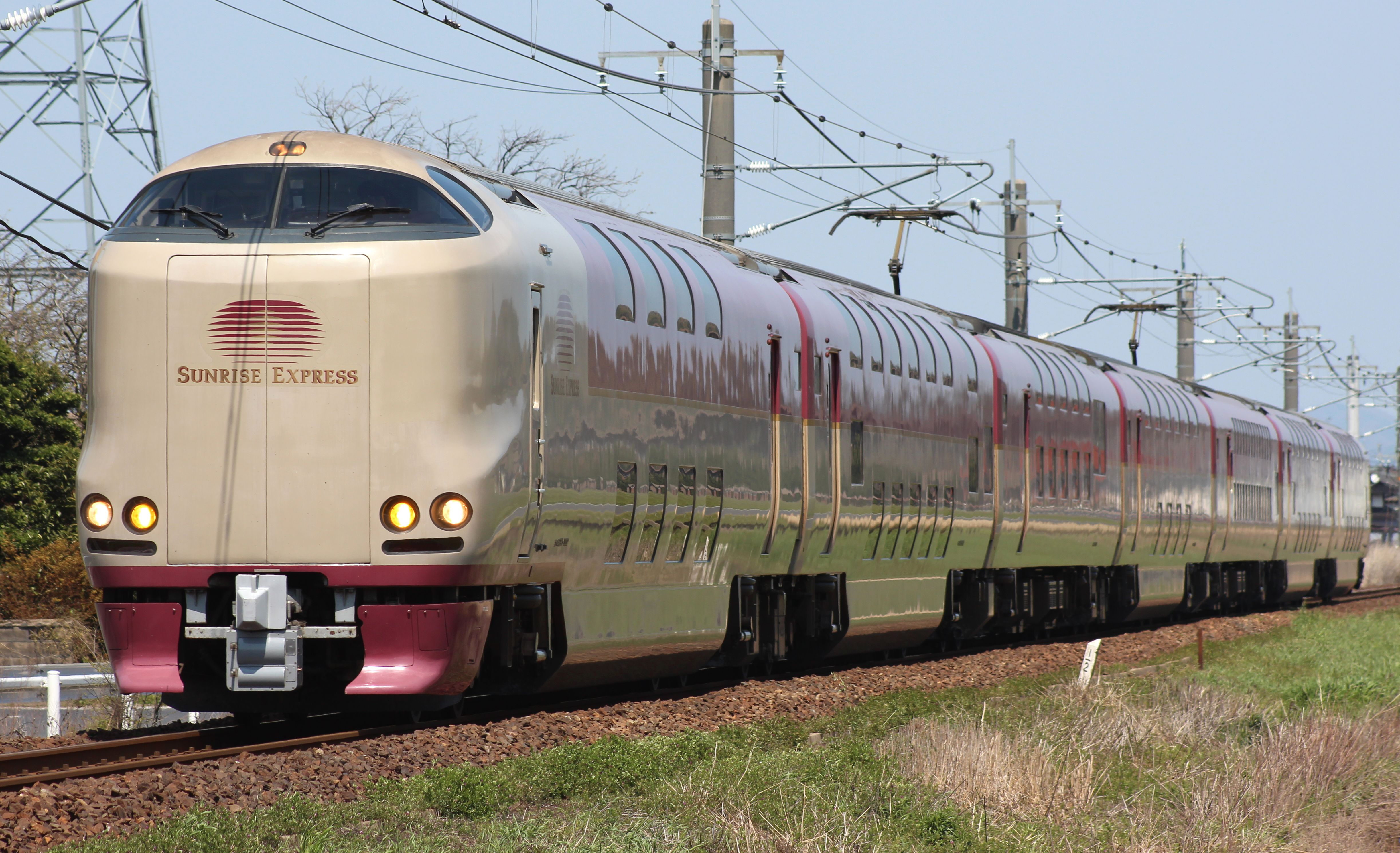 A JR 285 series sleeping car EMU on a Sunrise Izumo service